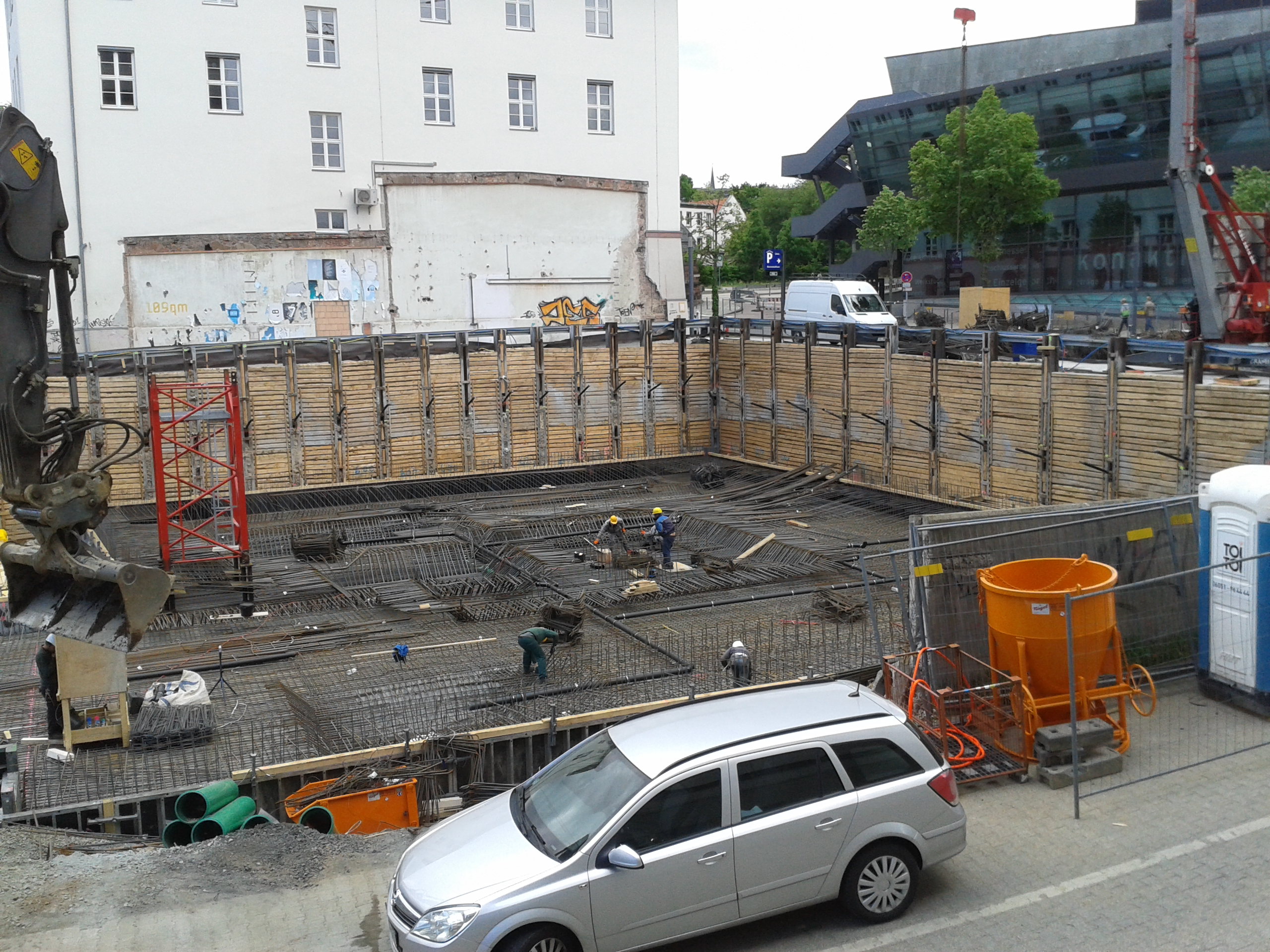 Construction site at the formely Stoeferlehalle (so called 603qm) in Darmstadt.